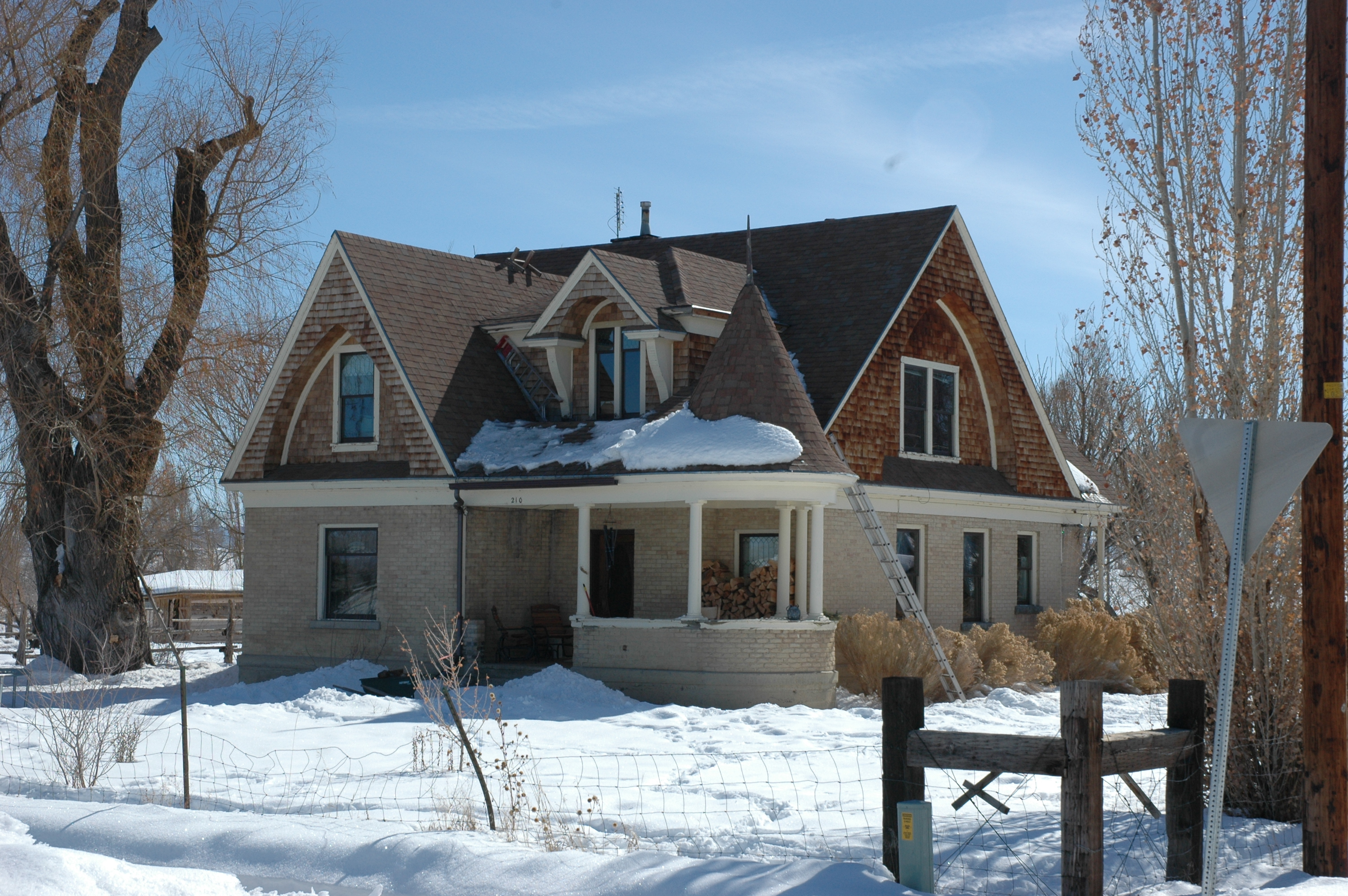 The Lars Peter Larson House, a historic home in Cleveland, Utah, United States.